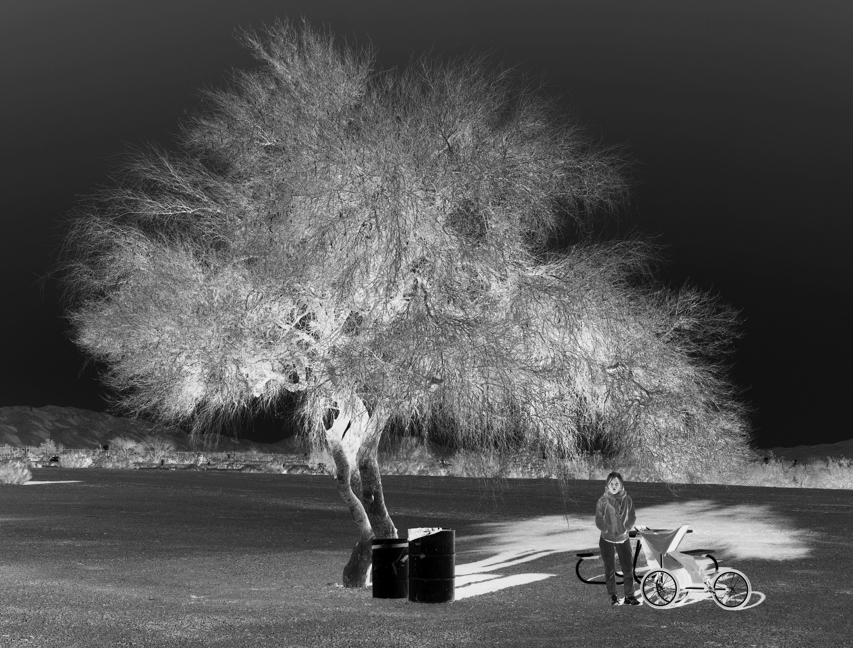 Image from "Negative Book", a series by Aneta Grzeszykowska, Polish contemporary artist.